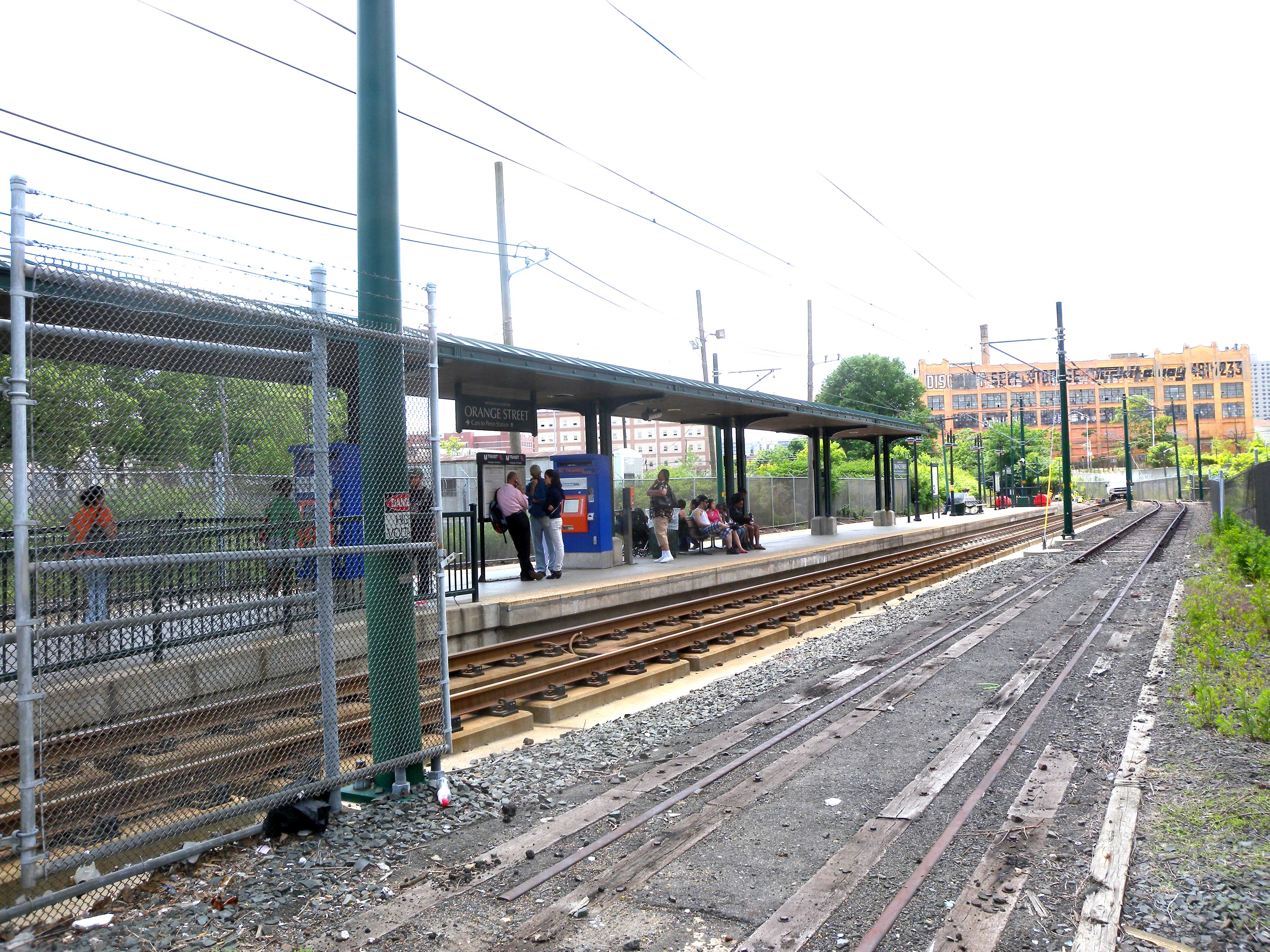 Looking south from Orange Street at Orange Street (NCS station) on a mostly sunny midday. See File:Ncsorange.JPG for a view from the opposite direction.